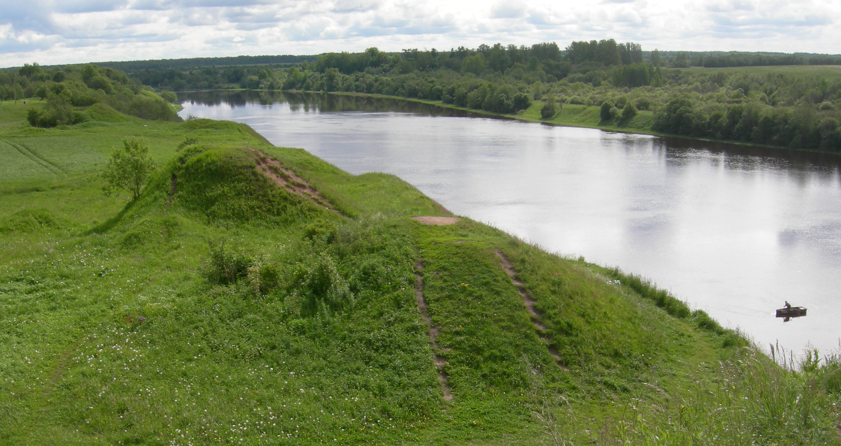 Eighth to Tenth Century Viking burial mounds along the Volkhov River near Staraya Ladoga, Russia.